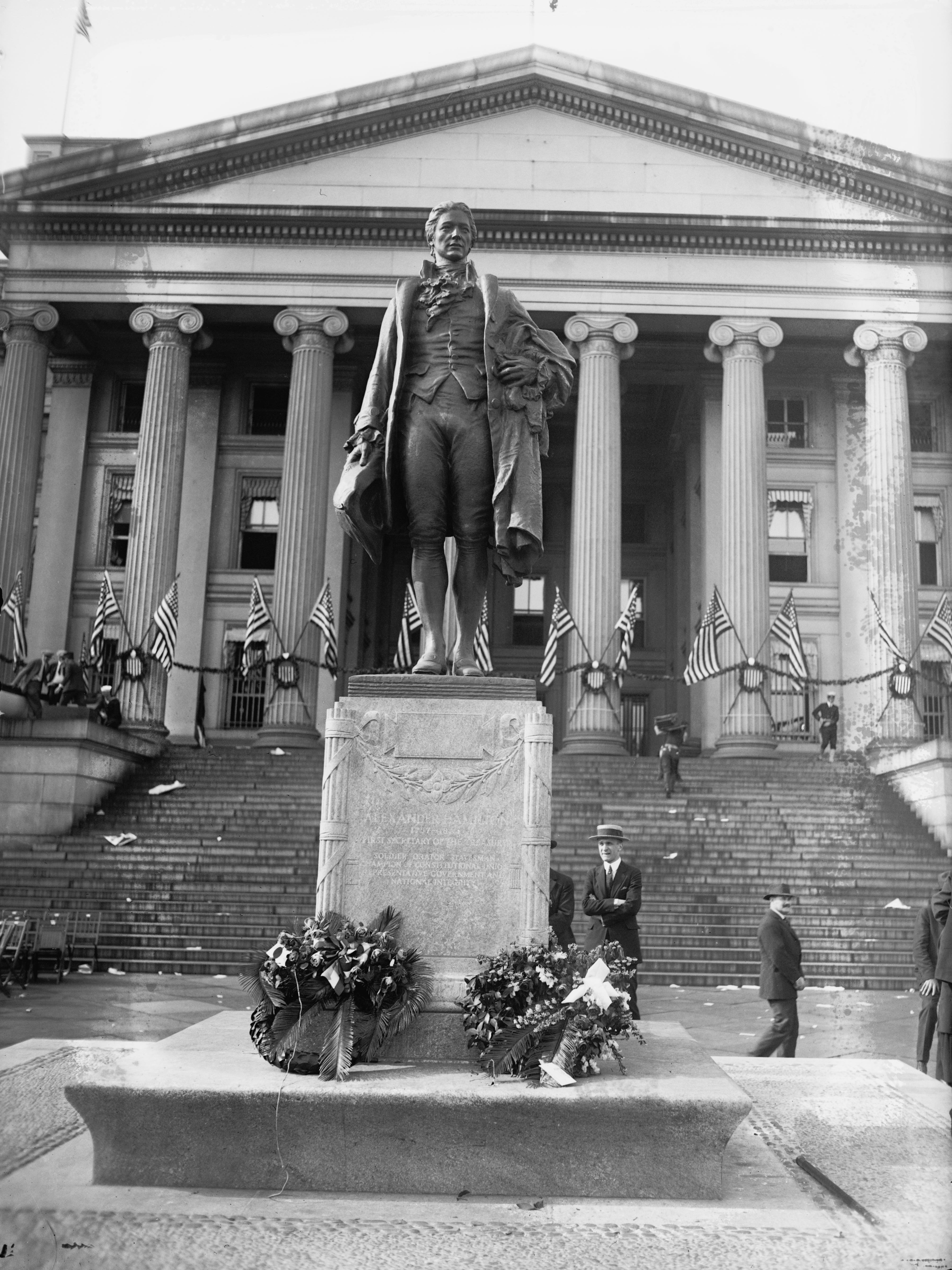 Alexander Hamilton statue next to the Treasury Building in Washington, D.C.